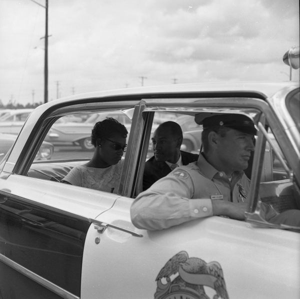 Persistent URL: Local call number: TD01484A Title: Civil rights activists arrested - Tallahassee Date: June 16, 1961 Physical descrip: 1 photonegative - b&w - 60 mm. Series Title: Tallahassee Democrat Collection Repository: State Library and Archives of Florida 500 S. Bronough St., Tallahassee, FL, 32399-0250 USA, Contact: 850.245.6700